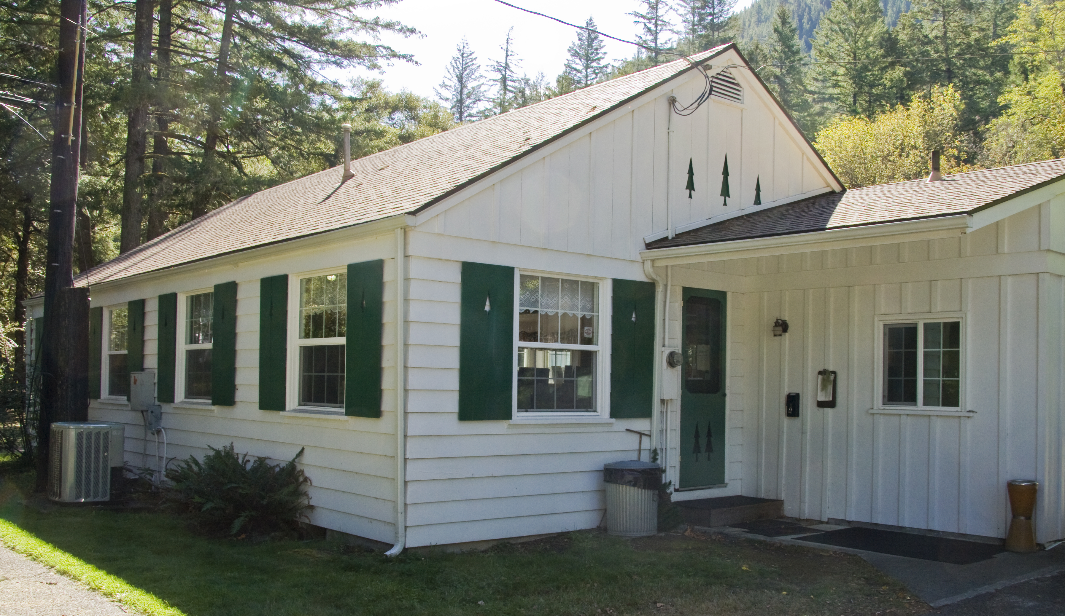 Gasquet Ranger Station, Six Rivers National Forest and Smith River National Recreation Area, Gasquet, California, USA, listed on the National Register of Historic Places